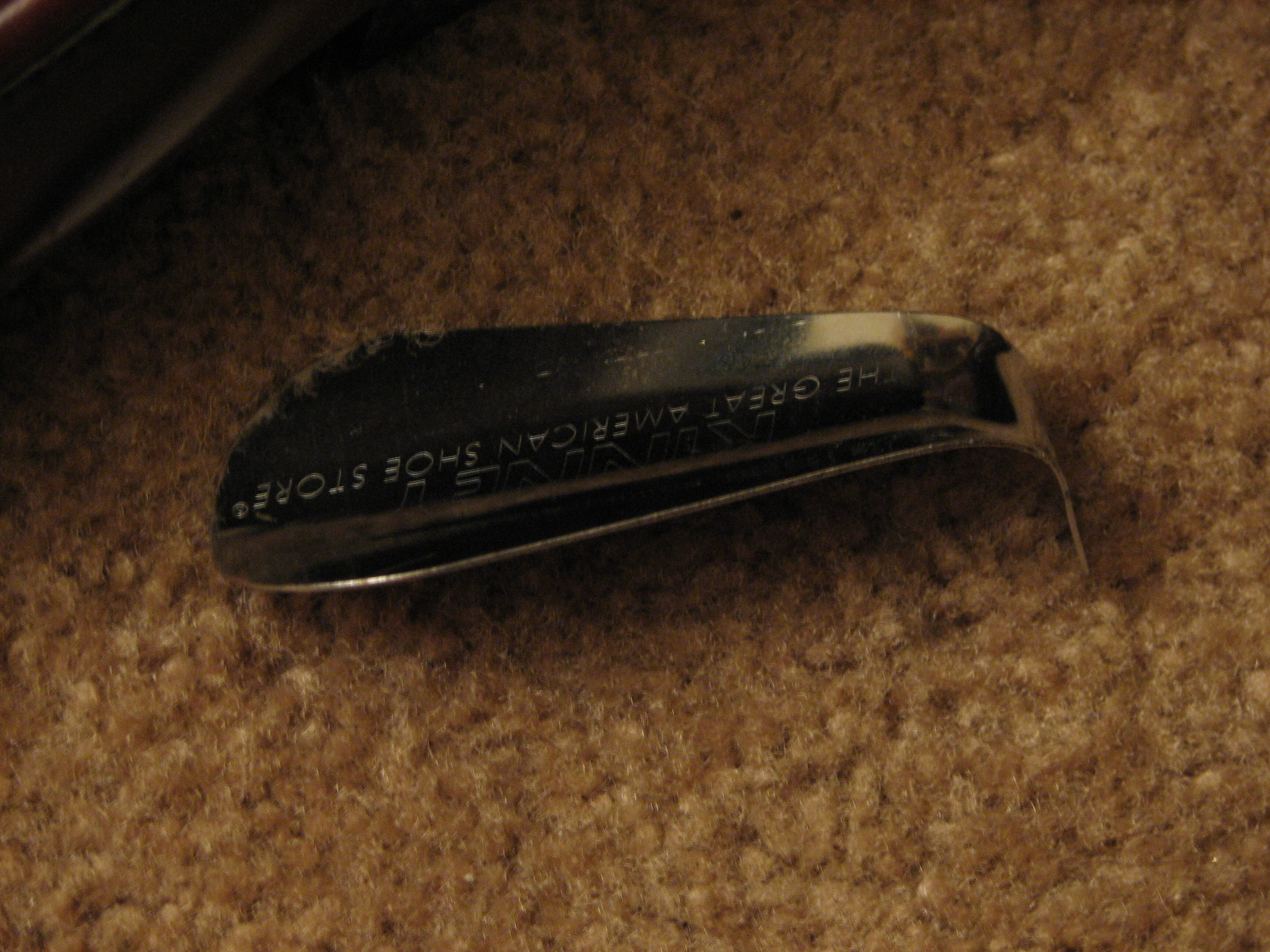 Metal shoe horn.